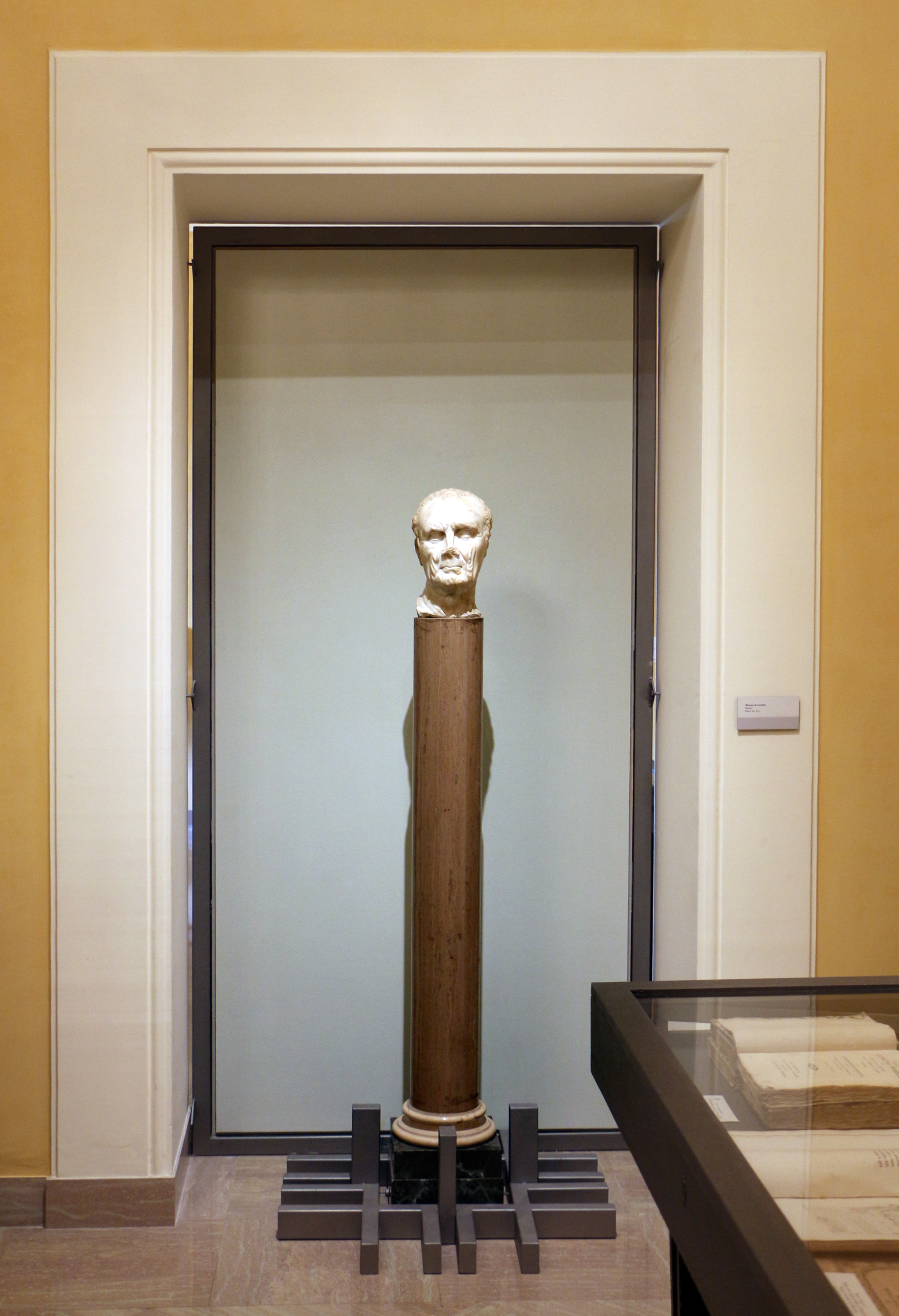 Osimo, Ancona